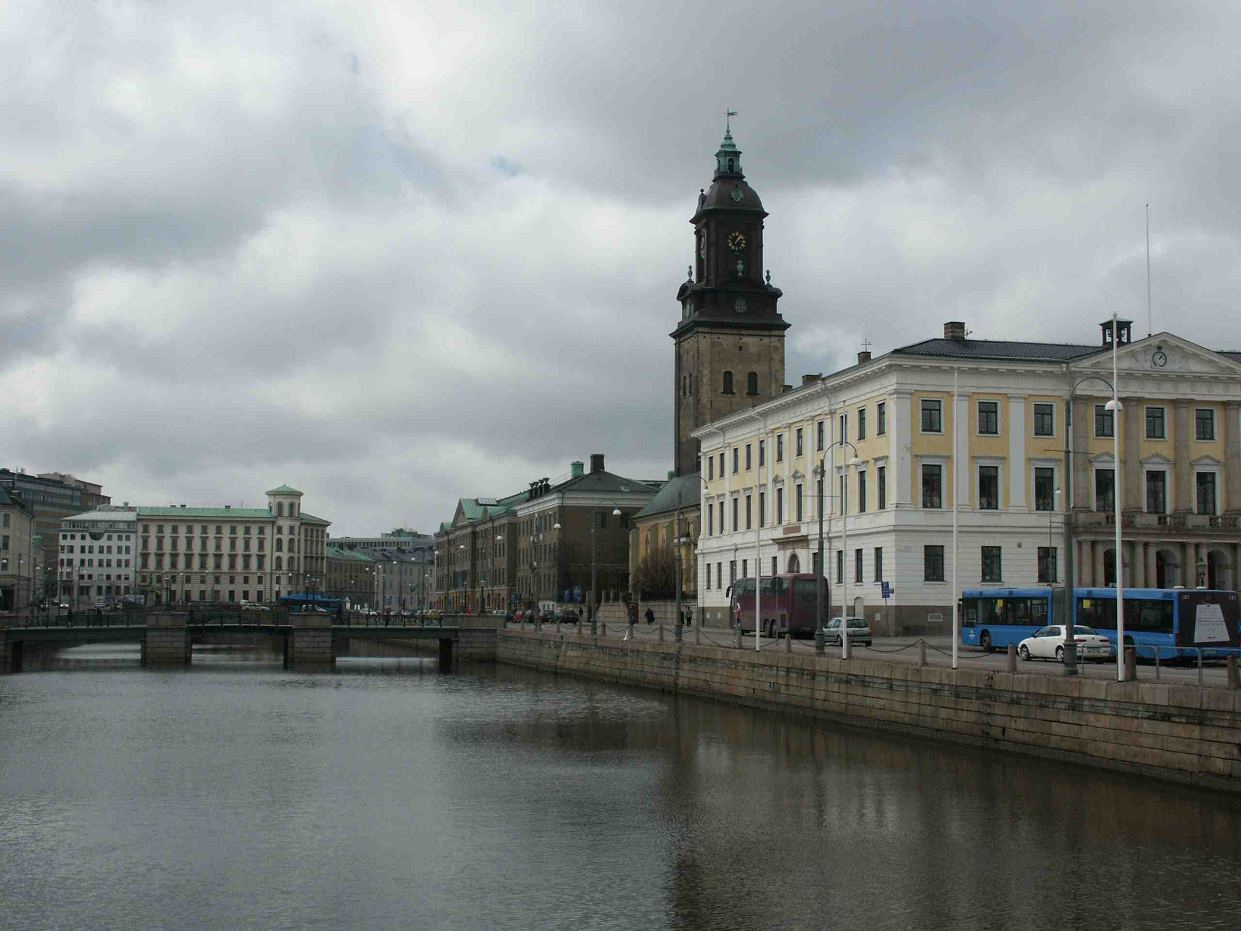 This is actually Stora hamnkanalen - "big harbour canal" next to the small park Brunnsparken